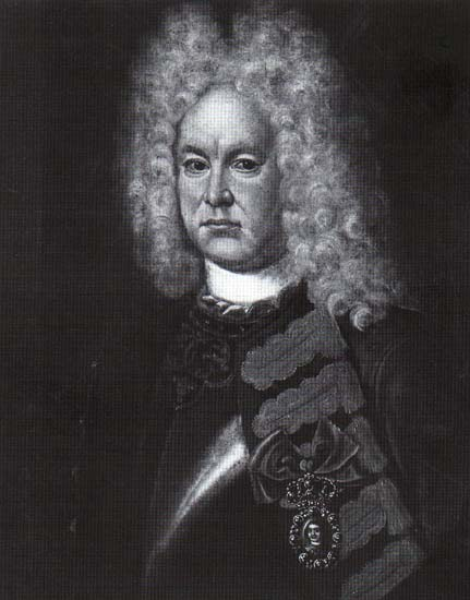 Bour_Rodion_Hristianovich (1667 — 1717)